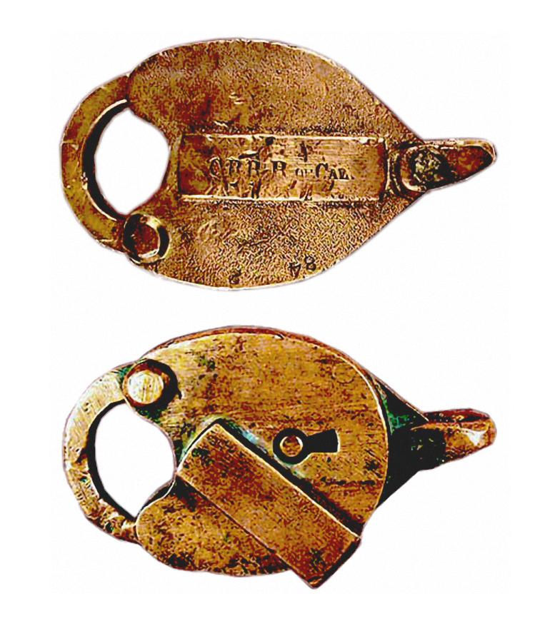 Central Pacific Railroad of California brass freight car lock manufactured at the CPRR shops, Sacramento, CA in February, 1884. Markings: CPRR of Cal ; 2 84. Dimensions: 4 3/8" x 2 3/4" x 13/16" Weight: 1 lb. 7 oz